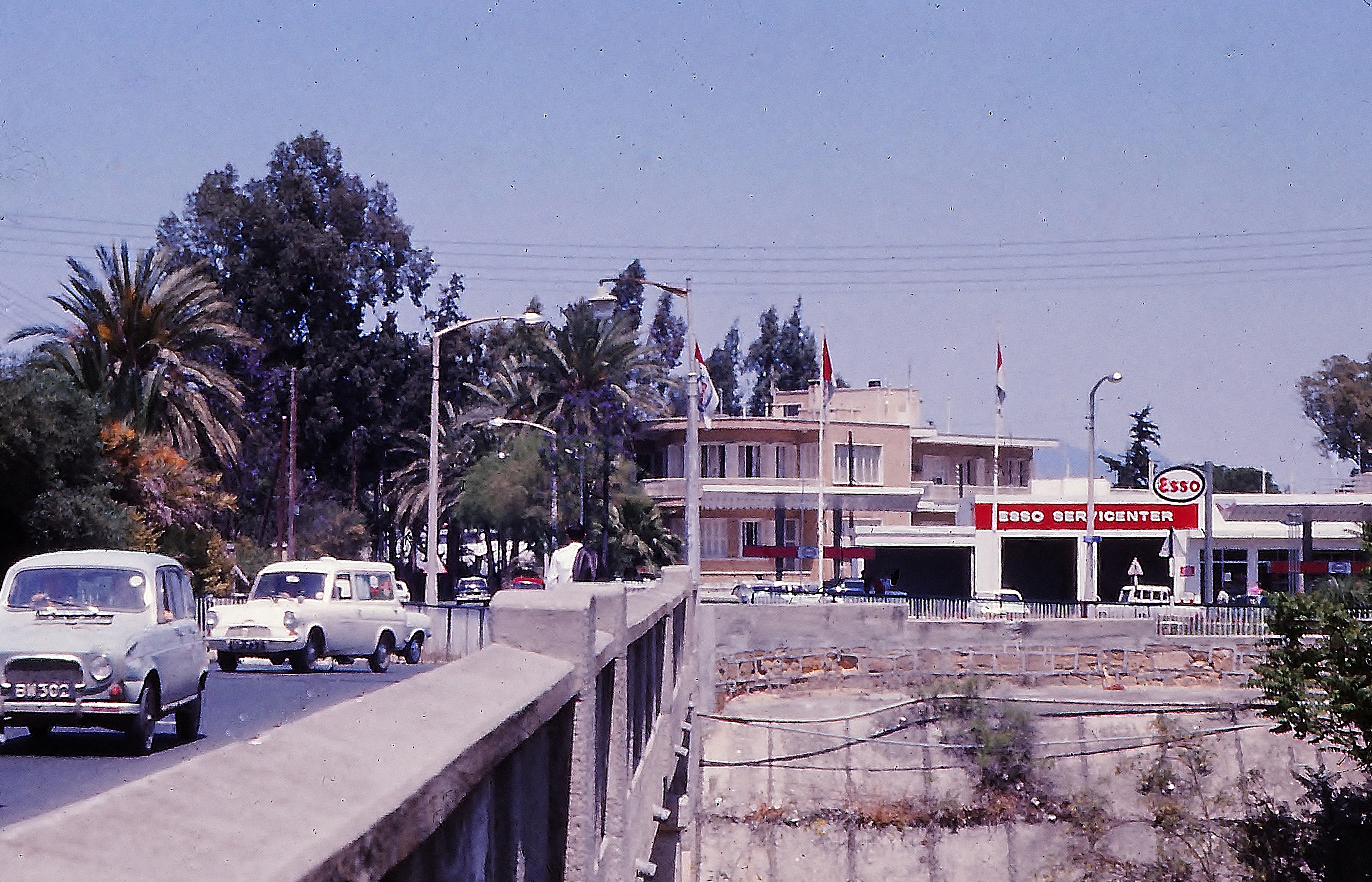 The bridge over the Potamos River as seen from the corner of Mettochiou Street. Behind the palm tree and the tall Eucalyptus tree, was Wolsey Barracks (HQ Cyprus District) , and behind the Esso garage, in 1952 -53, used to be Kushi Mohammed, the military tailor. In my schoolboy days, the place from where I took this snapshot, was occupied by a tiny ramshackle "shop" made from odd pieces of wood and corrugated iron, and where we'd buy Bubble Gum, chewy sweets, catapult elastic, and bottles of fizzy drinks!